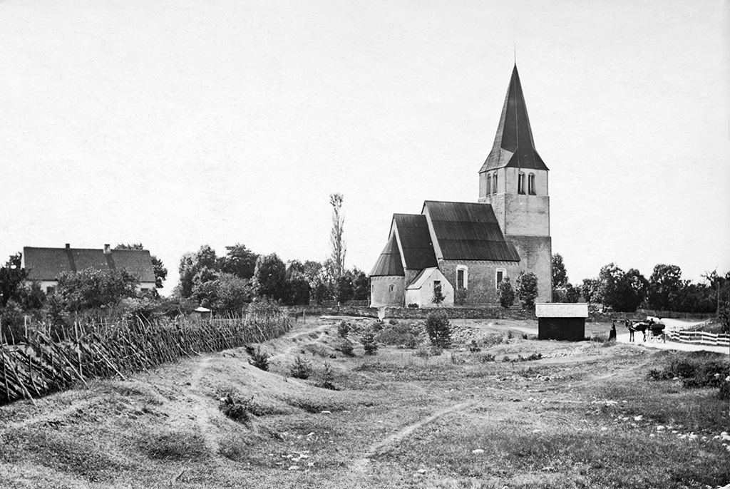 Levide church on the island of Gotland, originally from the earlier part of the 13th century. Levide kyrka på Gotland, ursprungligen från förra delen av 1200-talet. Parish (socken): Levide Province (landskap): Gotland Municipality (kommun): Gotland County (län): Gotland Photograph by: John Göransson Date: c. 1900 Format: Print Persistent URL: Read more about the photo database (in english)